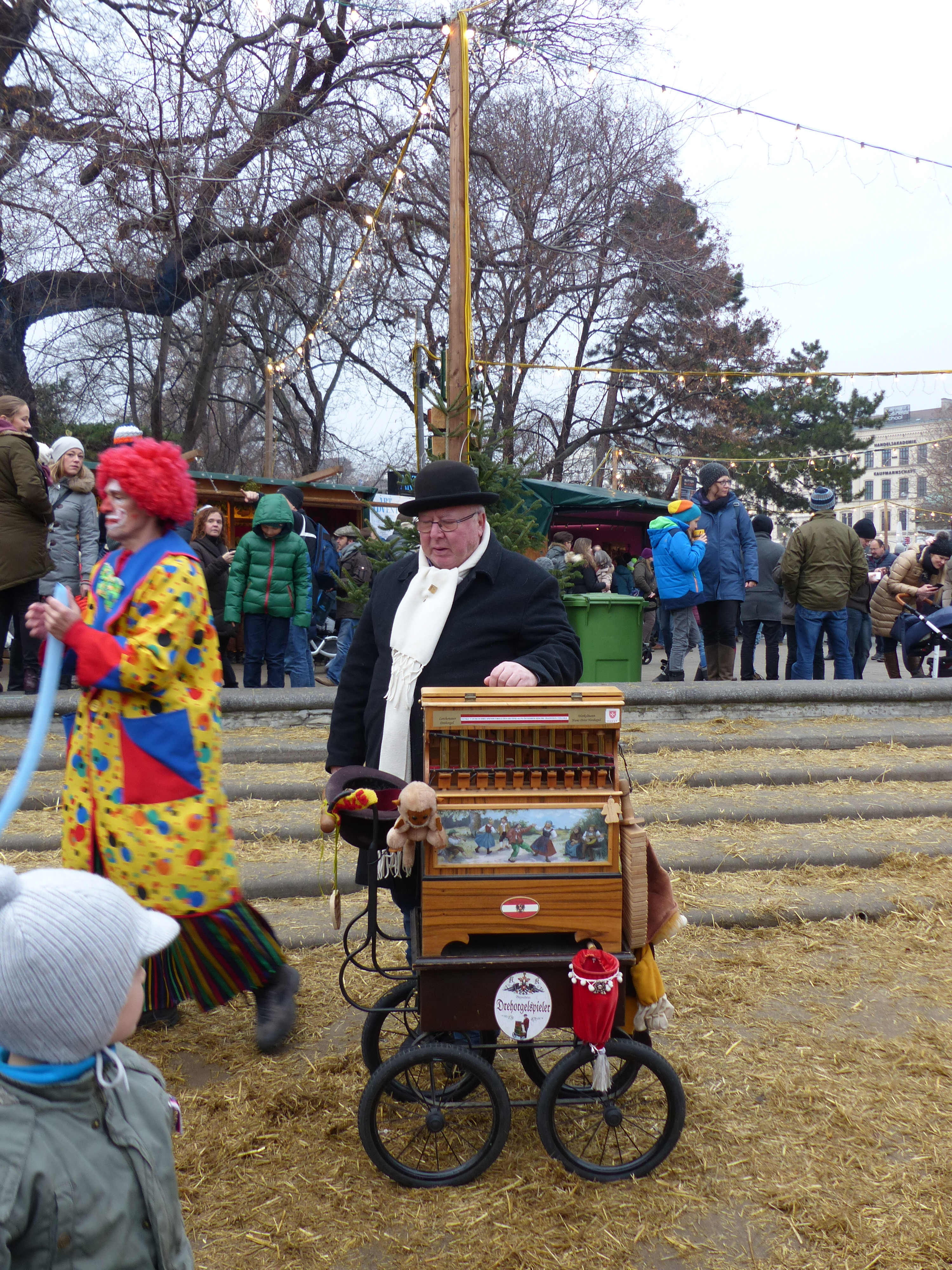 Karlsplatz Christmas Market Vienna. Taken on the 18th of December, 2016.